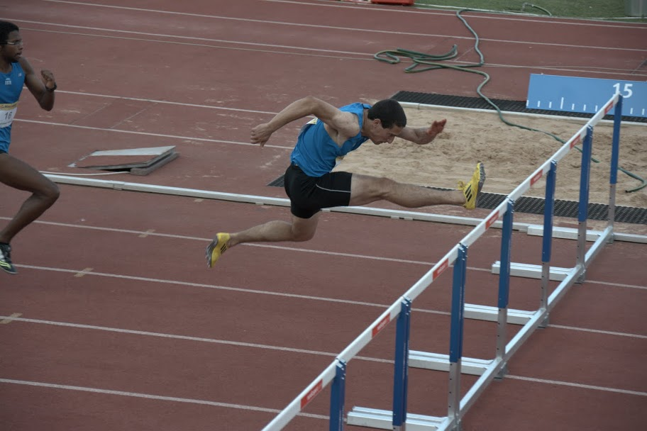 Tomer Almogi (Israel) runs to victory in 110m Men's Hurdles finals, on the 19th Macabbiah Games. Hadar Yosef Stadium, Tel-Aviv, Israel